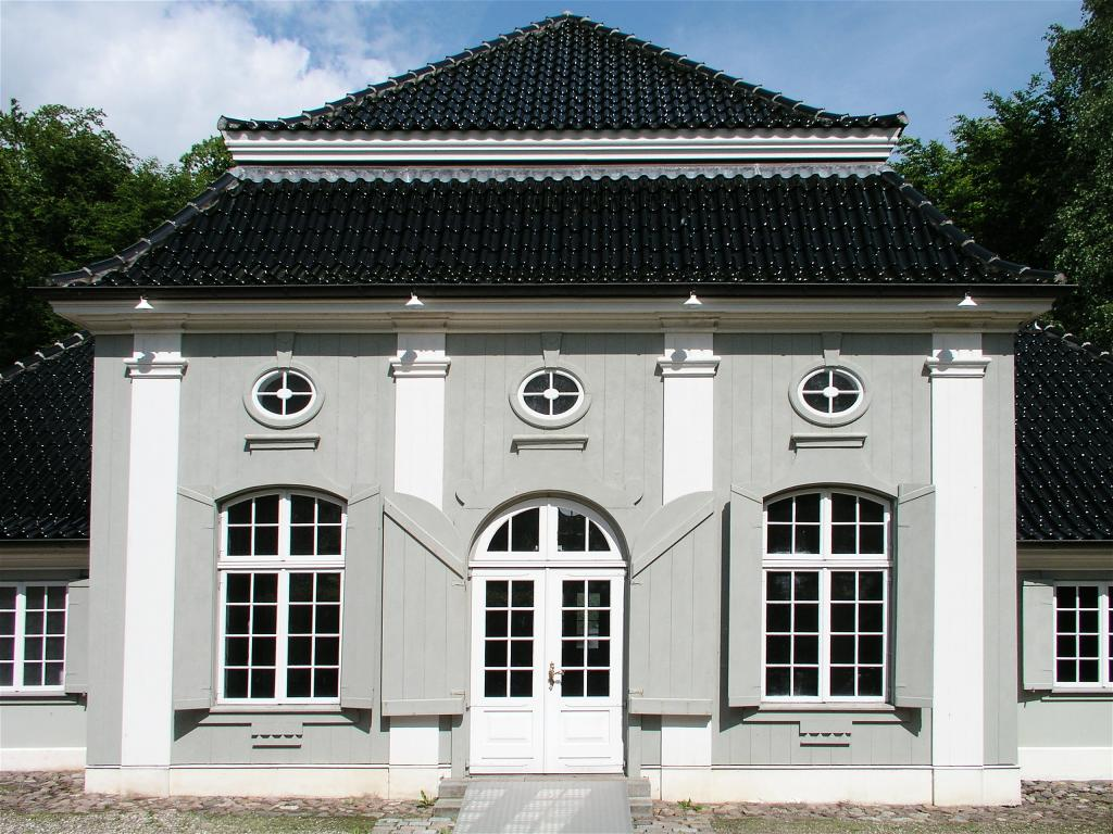 Slesvic-Holstein, Germany: hunting-lodge near the Lake Uklei, photo 2003